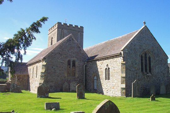 St Michael and All Angels parish church, Aston Botterell, Herefordshire, seen from the southeast